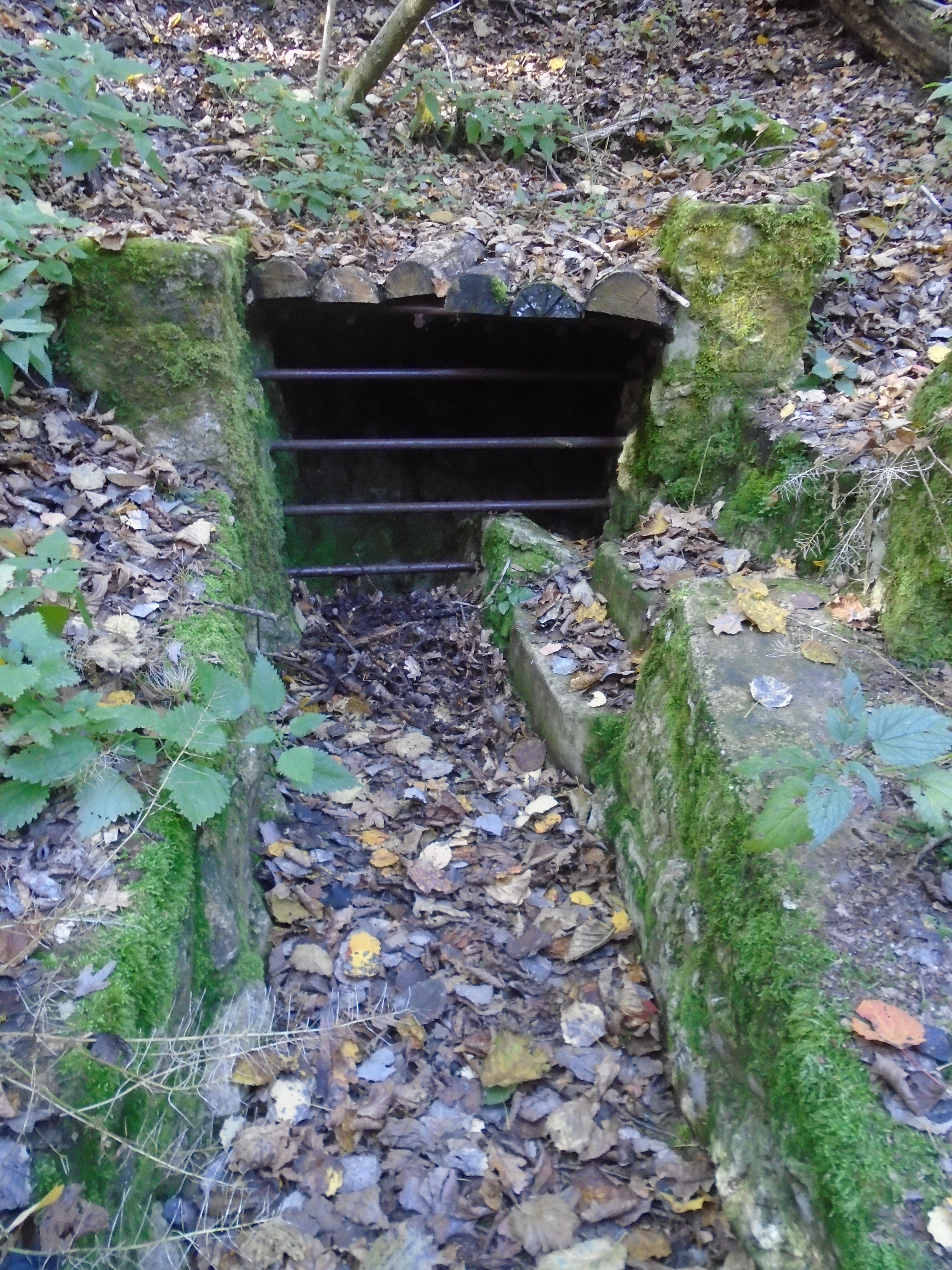 Béke Cave Felfedező-ági entrance.